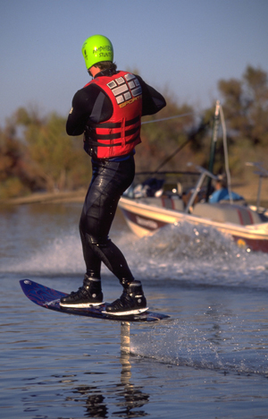 Former world champion water skier Tony Klarich riding vintage foilboard. This model was handmade with a Shapiro model wakeboard by Hyperlite, and inline skating boots mounted on wakeboard binding plates. An Air Chair foil assembly is mounted beneath the rear foot.